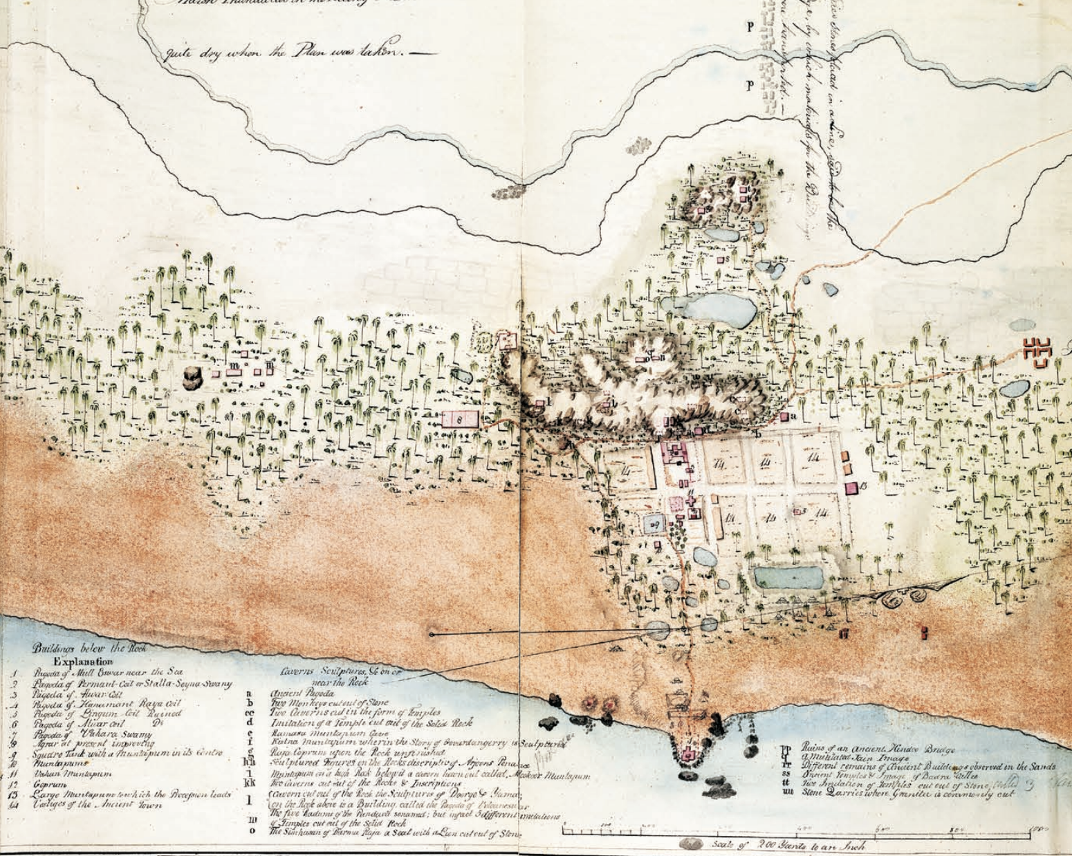 A map of Mahabalipuram ( Mamallapuram ) from early 19th century. It was published by and is a part of the Colin Mackenzie collection who died in 1821. The main hill with most of the UNESCO world heritage site monuments is shown in the center. The Shore temple is on the protuberance along the coastline shown with blue colored sea water / beach boundary. Other monuments which are also a part of the UNESCO site are shown kilometers away on both sides of the central main hill, and between the main hill and the Shore temple. For more information, controversies and discussion, please see Jennifer Howes, Illustrating India: The Early Colonial Investigations of Colin Mackenzie(1784-1821), Oxford University Press, ISBN 978-0198064411.